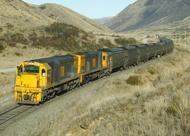 Photograph by Darryl Bond of two "Bumble bee" DX class locomotives heading a coal train on the Midland Line.